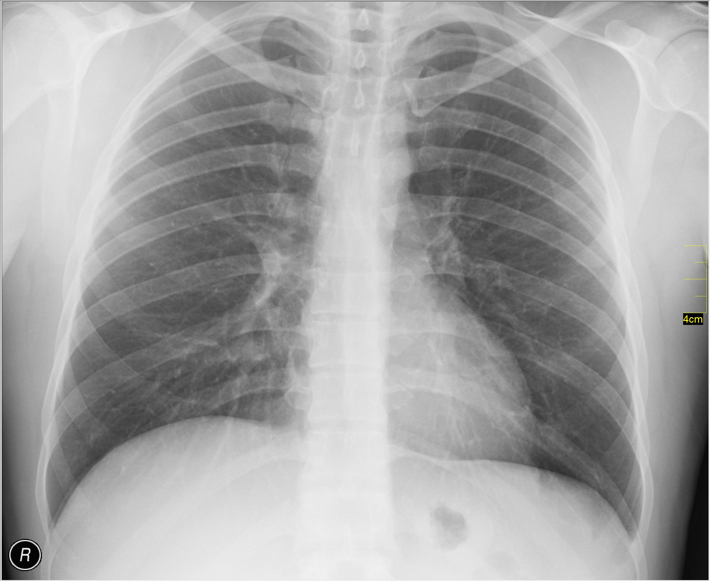 Medical X-rays. Image may not be to scale